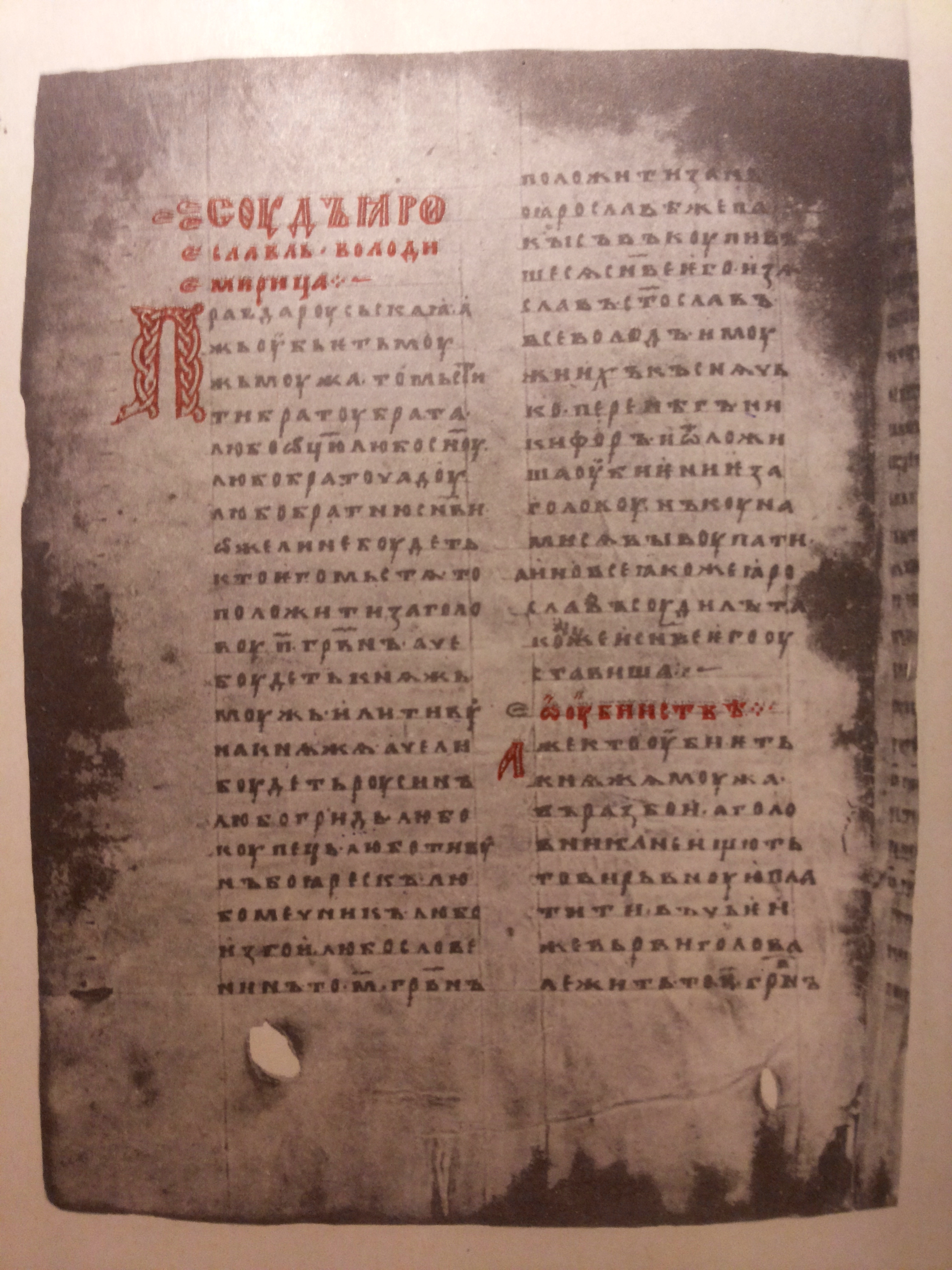 There is a facsimile reproduction of the instance Sinodal`niy of Pravda Ruskaya, page 1